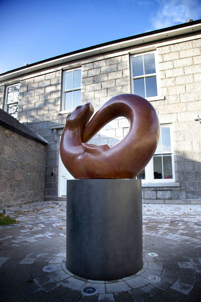 Otter sculpture 'Maxwell' at headquters of ADC Engineering Aberdeen